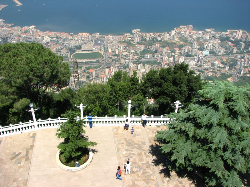 Jounieh as seen from Harissa Photographed by BlingBling10 Category:Images of Lebanon Image:Jounieh-from-Harissa.jpg